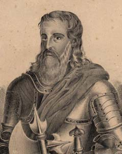 Henry, Count of Portugal